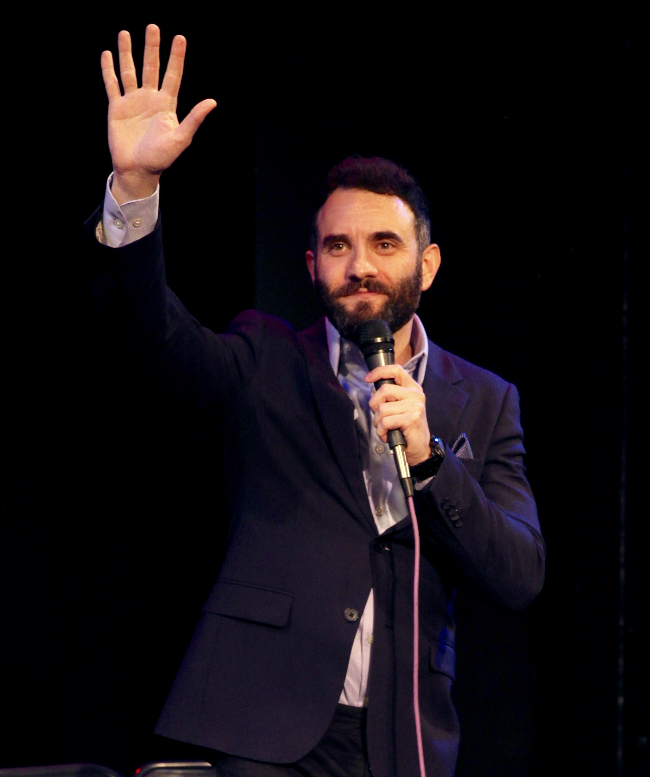 Aaron Karo on stage in Los Angeles.